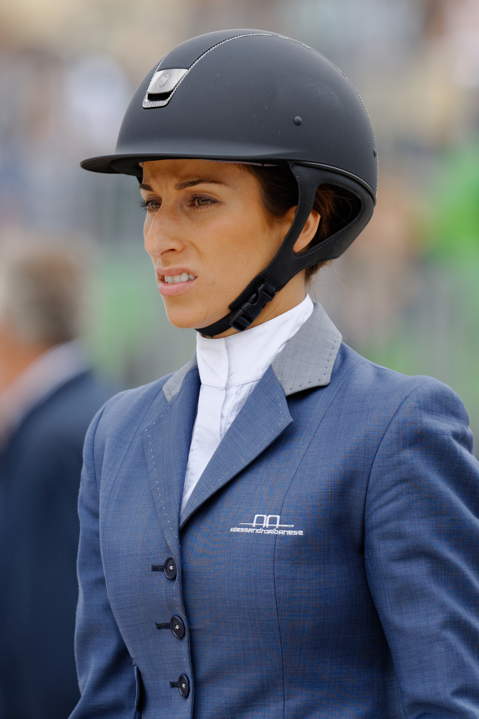 Switzerland's Janika Sprunger walks the course before the first round of the CSI 5* Longines Global Champions Tour Grand Prix in Paris on 5 July 2014.